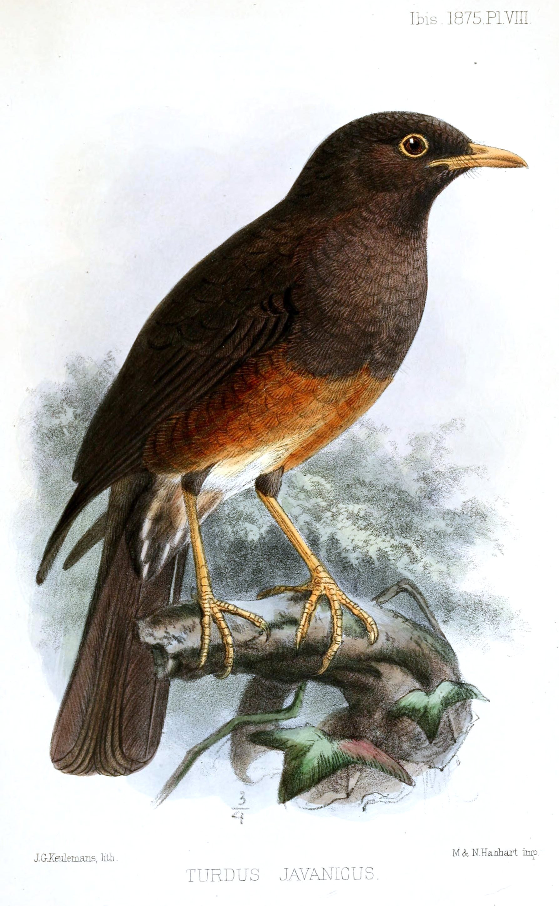 « Turdus javanicus » = Turdus poliocephalus javanicus (Subspecies of Island Thrush)